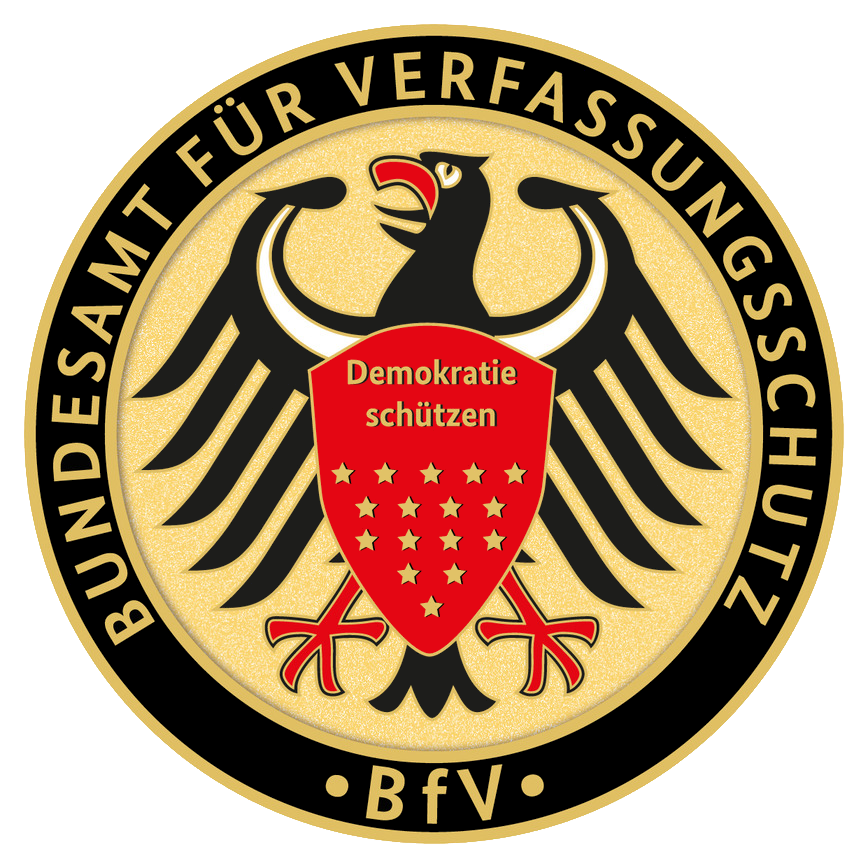 Emblem of the BfV